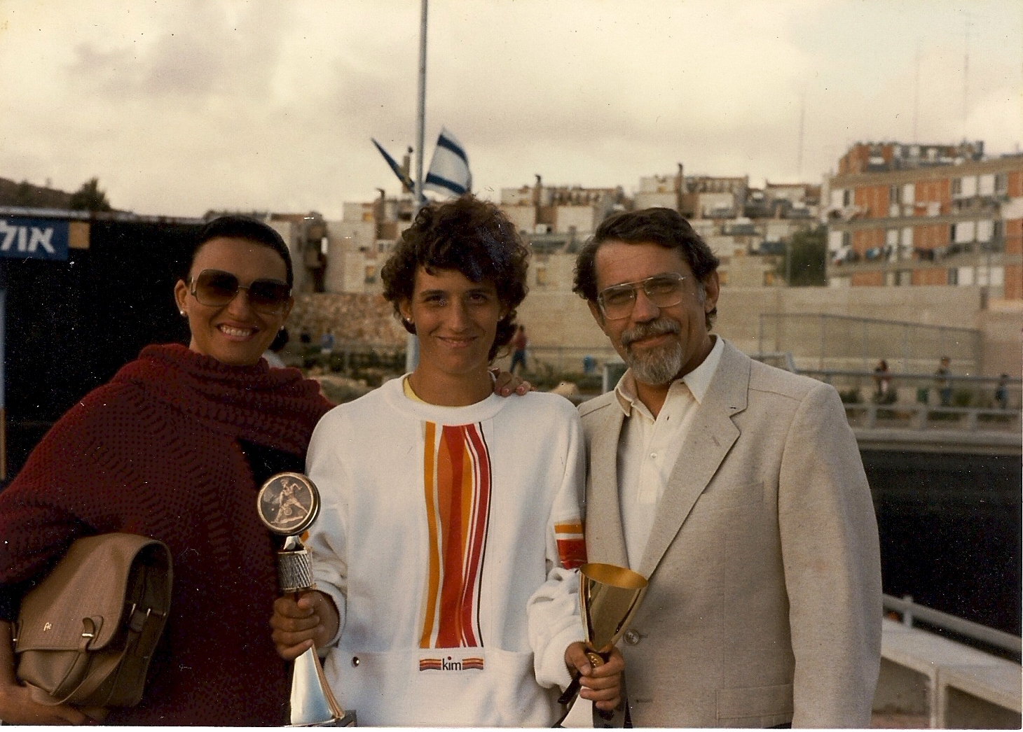 Israeli Tennis player Ilana Berger with her parents in the Jerusalem Tennis Center after winning her first Israeli championship in 1985